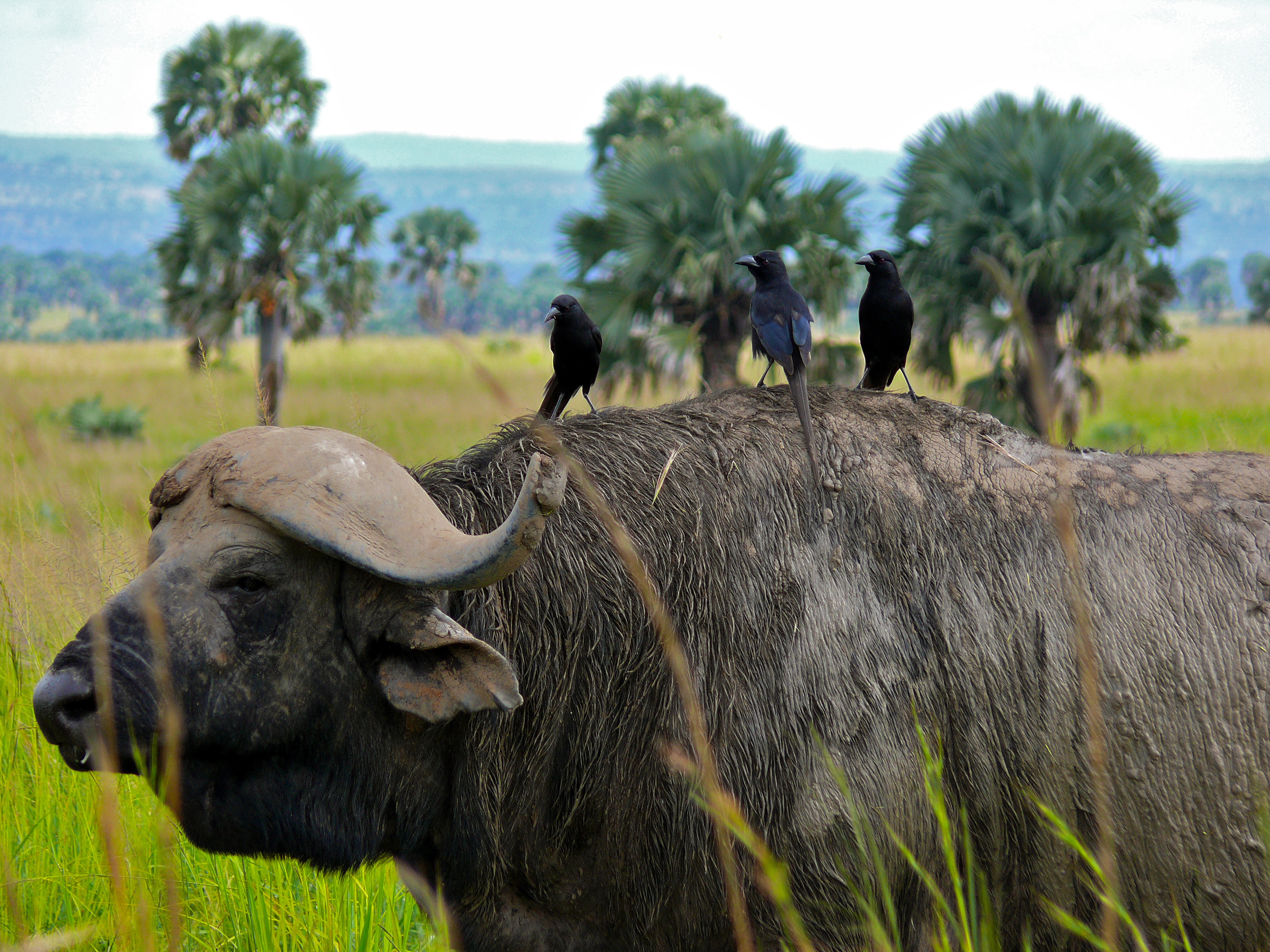 Murchison's Falls NP UGANDA